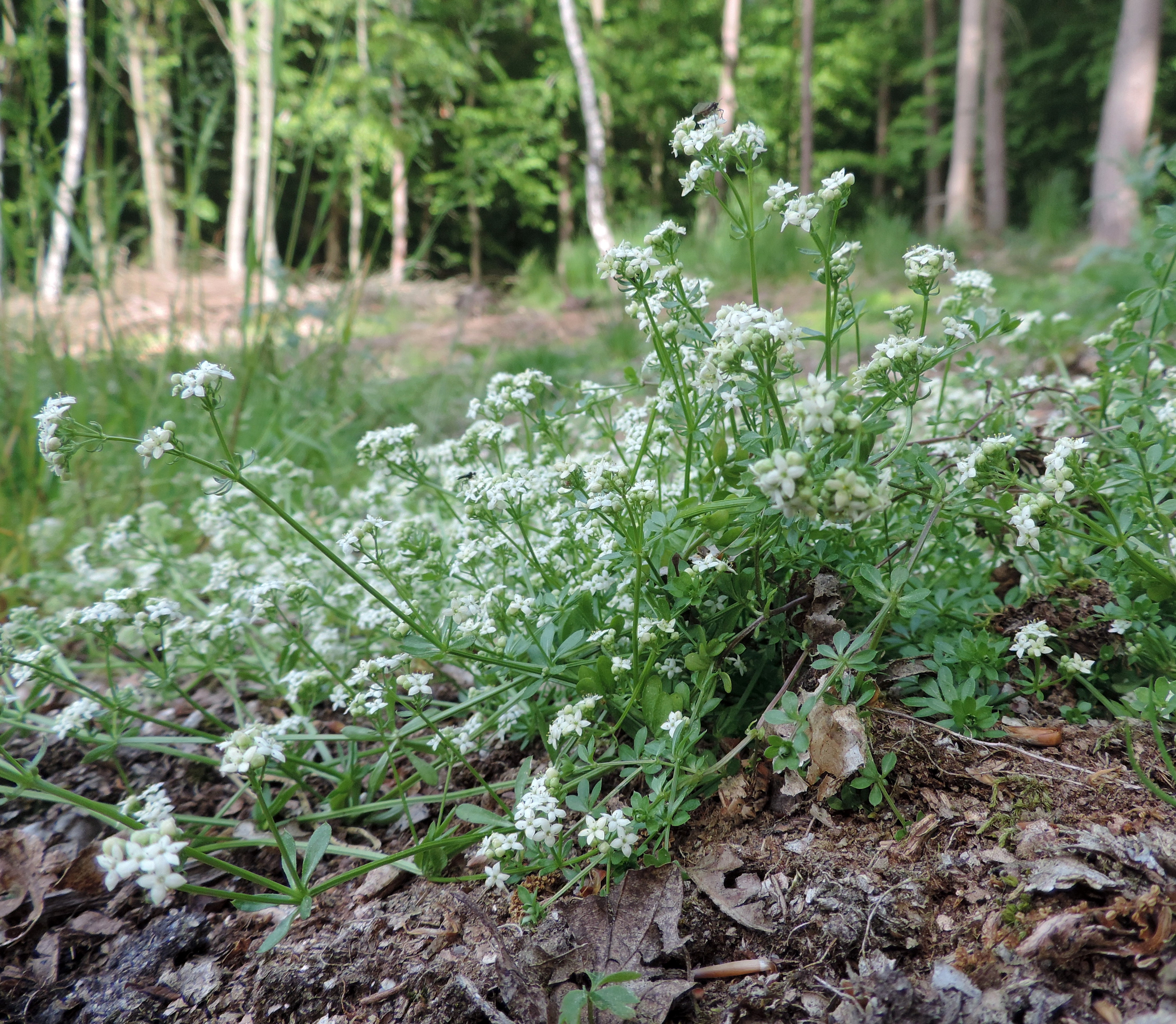 Galium saxatile in Gniewino commune, N Poland